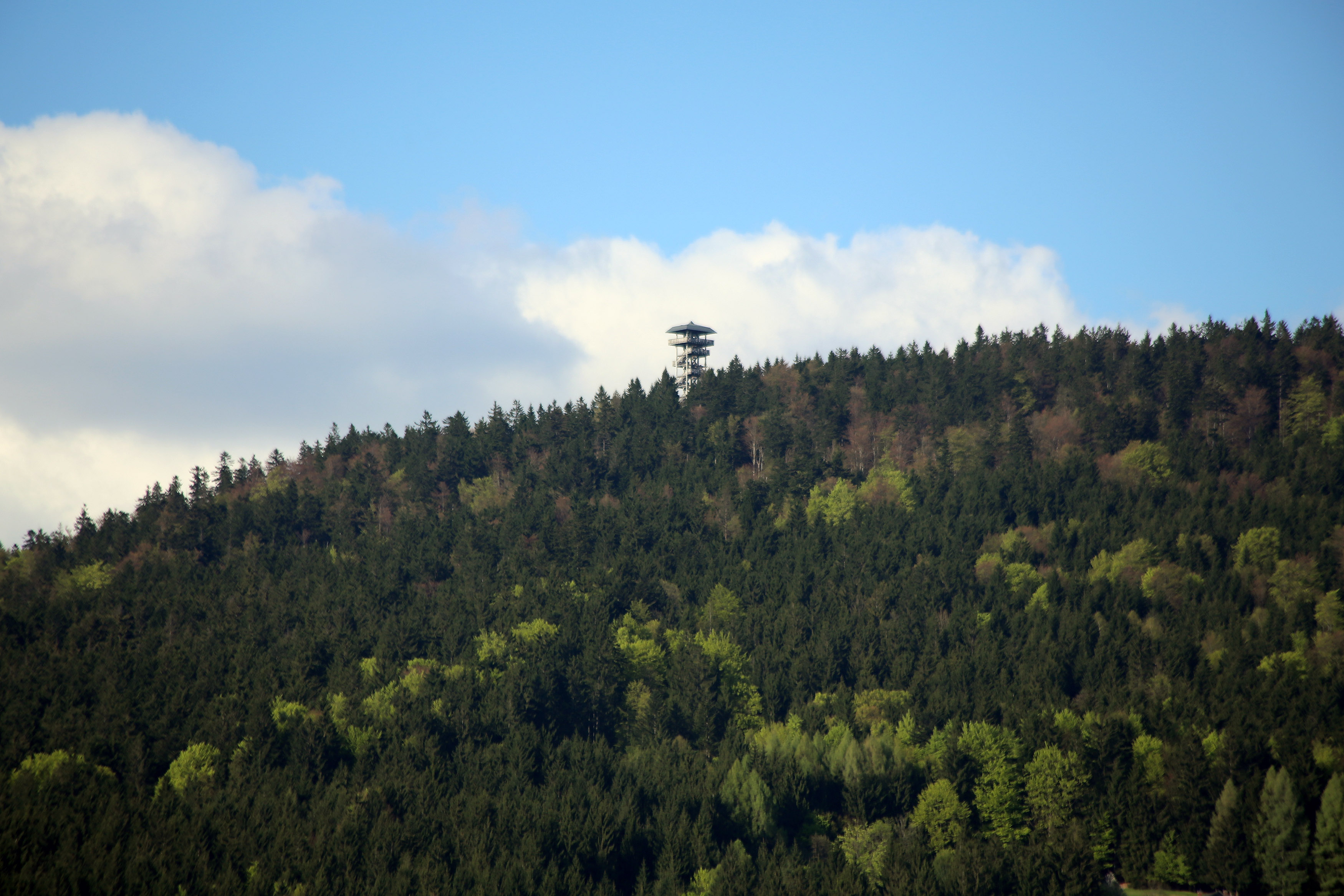 Bohemian Forest seen from Ulrichsberg, Upper Austria)